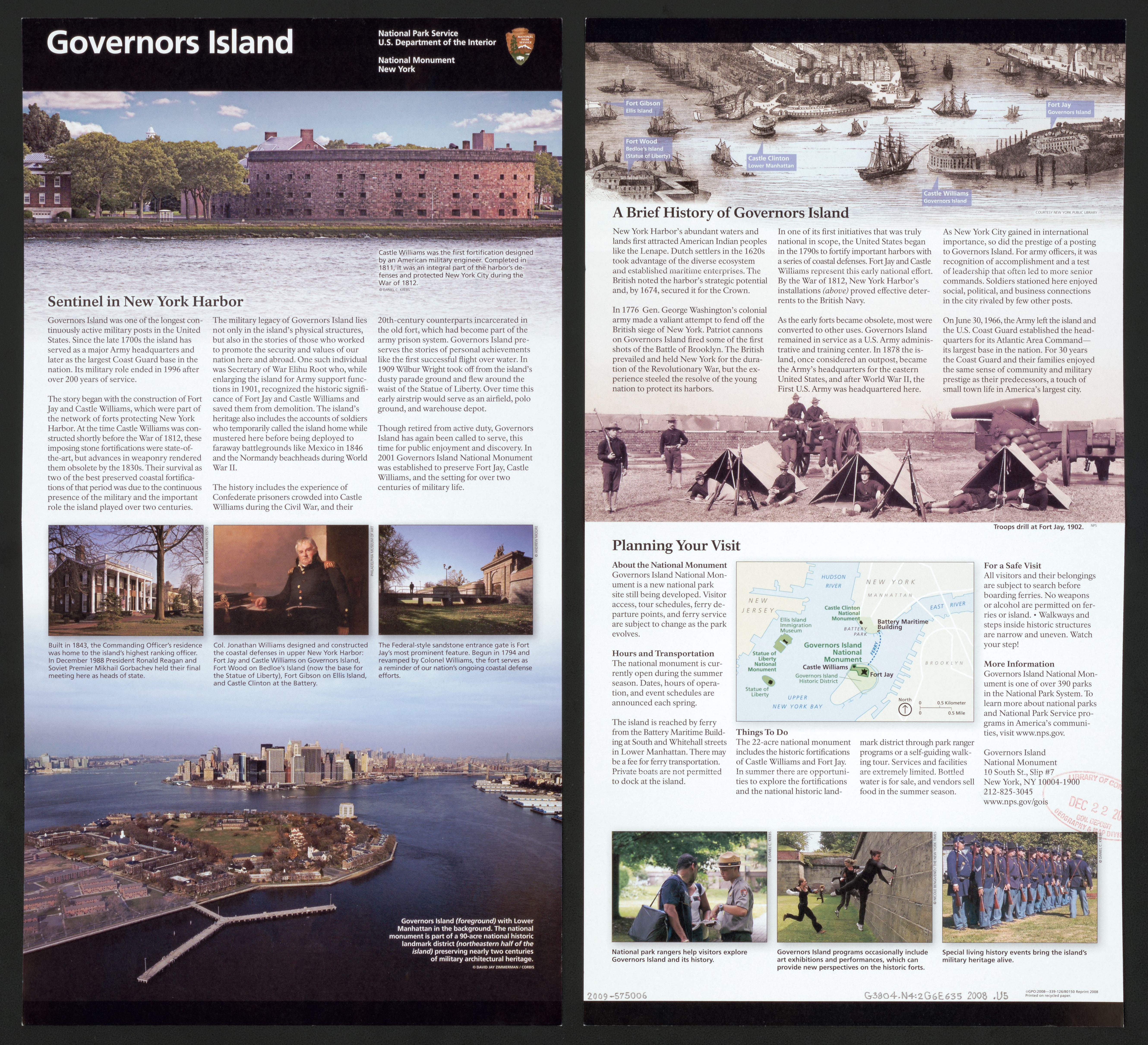 Island map is a regional location map showing showing the positions of other federally administered park properties in Upper New York Bay. "*GPO:2008--339-126/80150 Reprint 2008." Title from panel. Includes text and ill. (some col.). Available also through the Library of Congress Web site as a raster image.